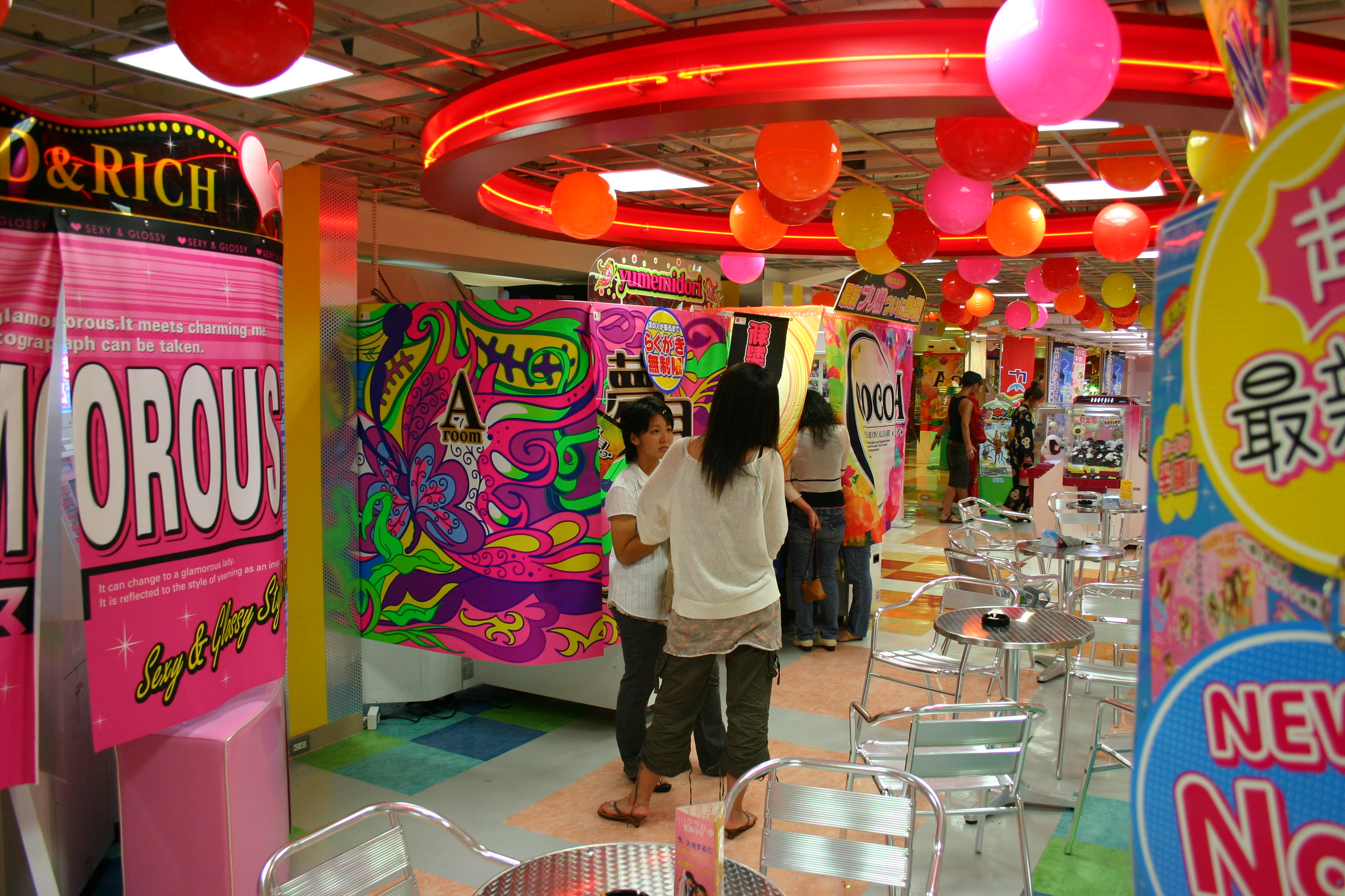 You don't get much more colourful than the arcades